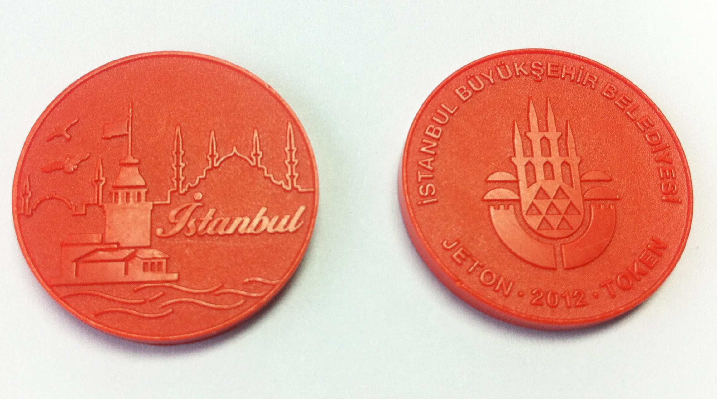 Istanbul Token